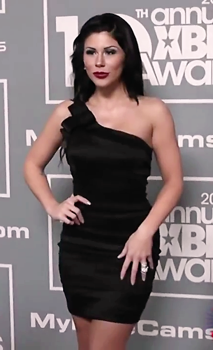 Brooklyn Lee at XBIZ Awards 2012